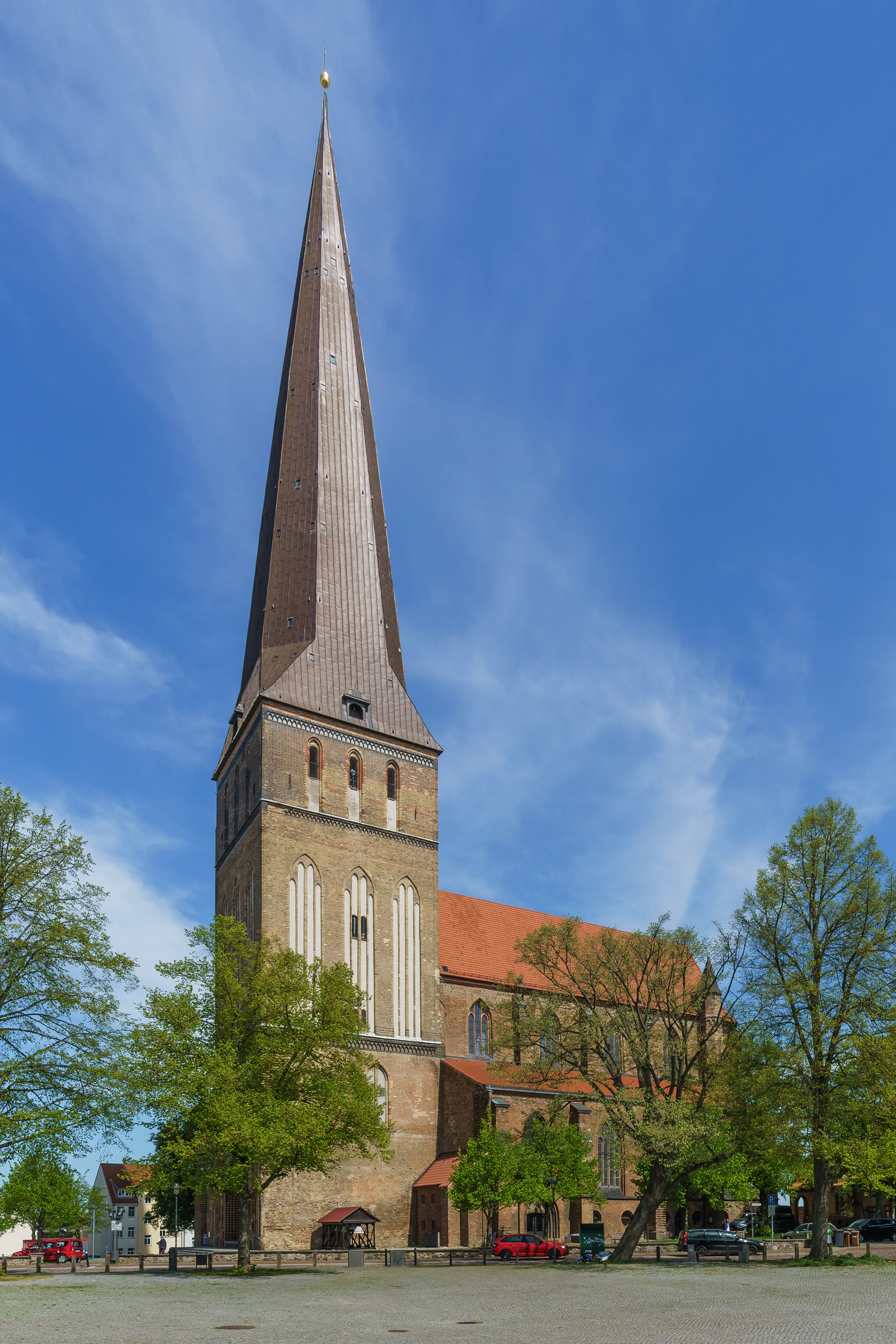 St. Peter Church in Rostock, Germany